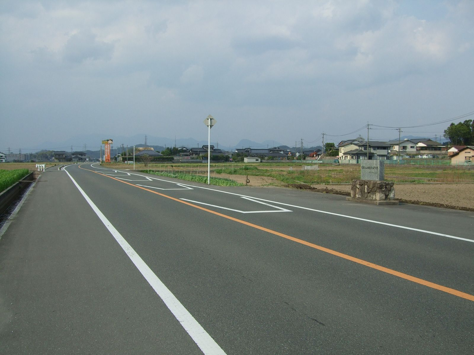 The ruin of Higashi-kawasaki Station, Kamiyamada Line, Kawasaki Town, Fukuoka, Japan.